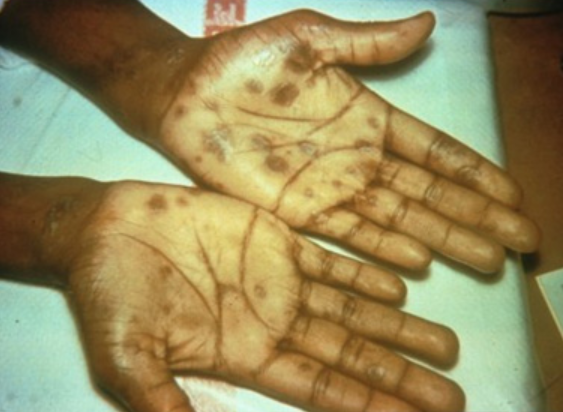 Rash on the palms of both hands due to secondary syphilis.